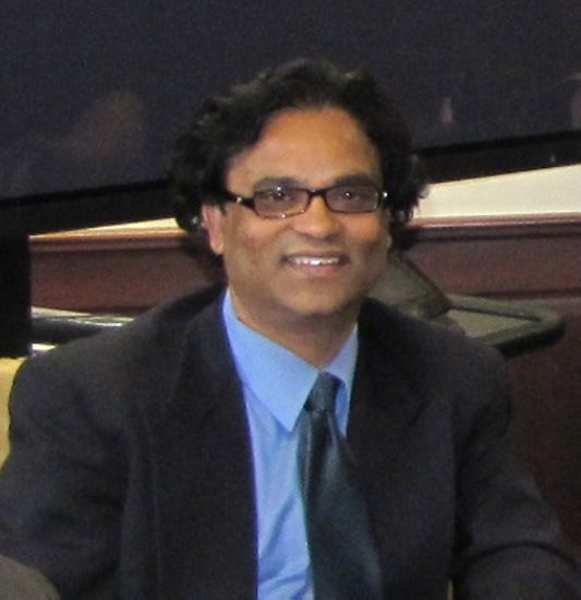 Potrait of Dr. Sezan Mahmud.